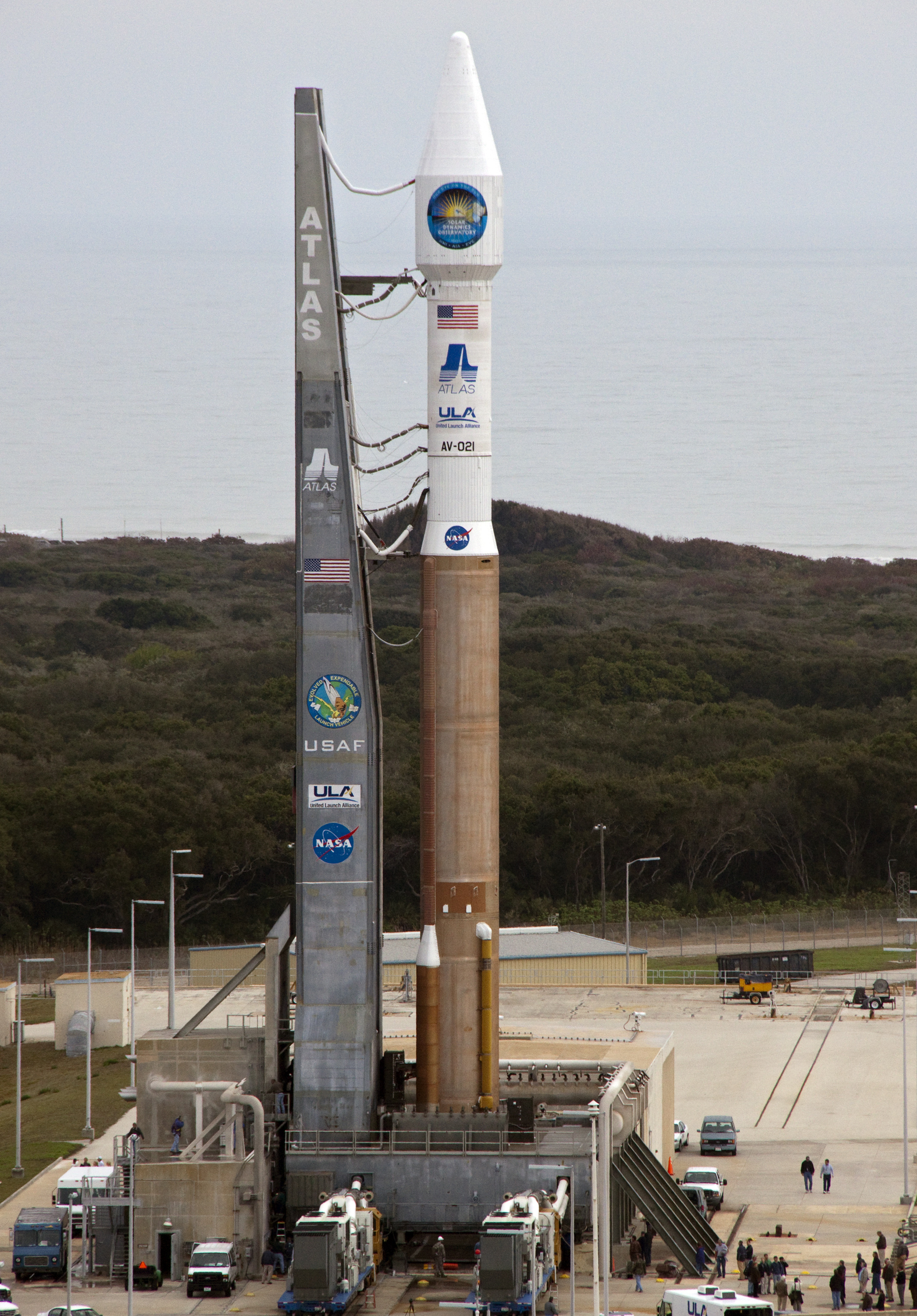 CAPE CANAVERAL, Fla. – At Launch Complex 41 on Cape Canaveral Air Force Station, preparations are under way to launch the newly arrived United Launch Alliance Atlas V rocket which will deploy NASA's Solar Dynamics Observatory. The observatory, known as SDO, is the first mission in NASA's Living With a Star Program and is designed to study the causes of solar variability and its impacts on Earth. The spacecraft's long-term measurements will give solar scientists in-depth information to help characterize the interior of the Sun, the Sun's magnetic field, the hot plasma of the solar corona, and the density of radiation that creates the ionosphere of the planets. The information will be used to create better forecasts of space weather needed to protect the aircraft, satellites and astronauts living and working in space. Liftoff is set for 10:26 a.m. EST Feb. 10. For information on SDO, visit